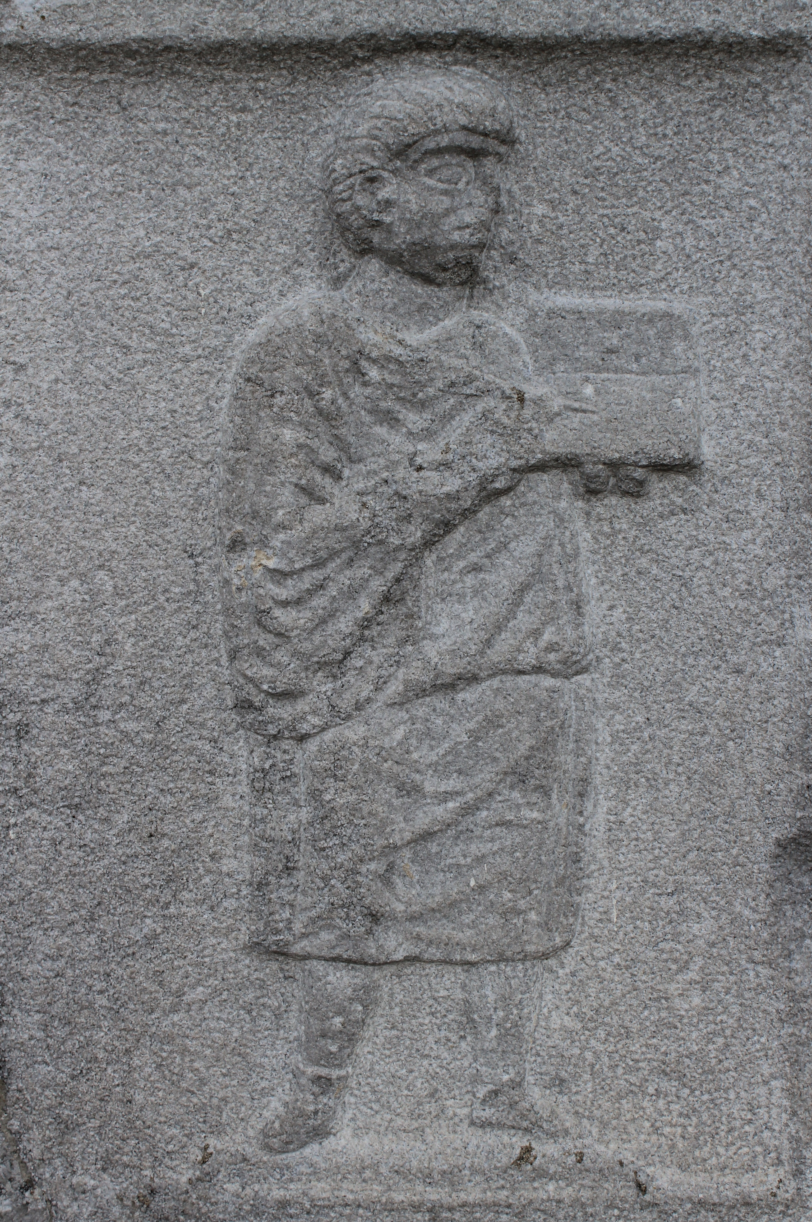 Subsidiary church St Jakob in the community of Wolfsberg - Roman stone